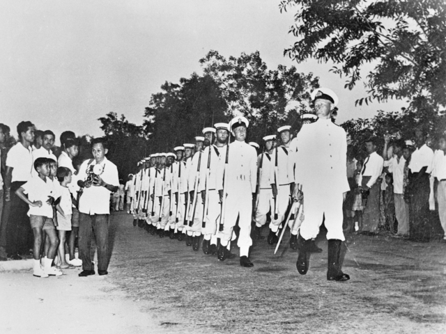 Naval Forces Borneo parade to mark the withdrawal of the Royal Navy, Royal Australian Navy and Royal New Zealand Naval Forces. The parade was provided by the Officers and Ships Company of the HMAS Parramatta Commander J.A. Matthews, MBE, Royal Australian Navy. The salute was taken by the Commander British Forces in Borneo, Major General G.H. Lea, CB, DSO, MBE.